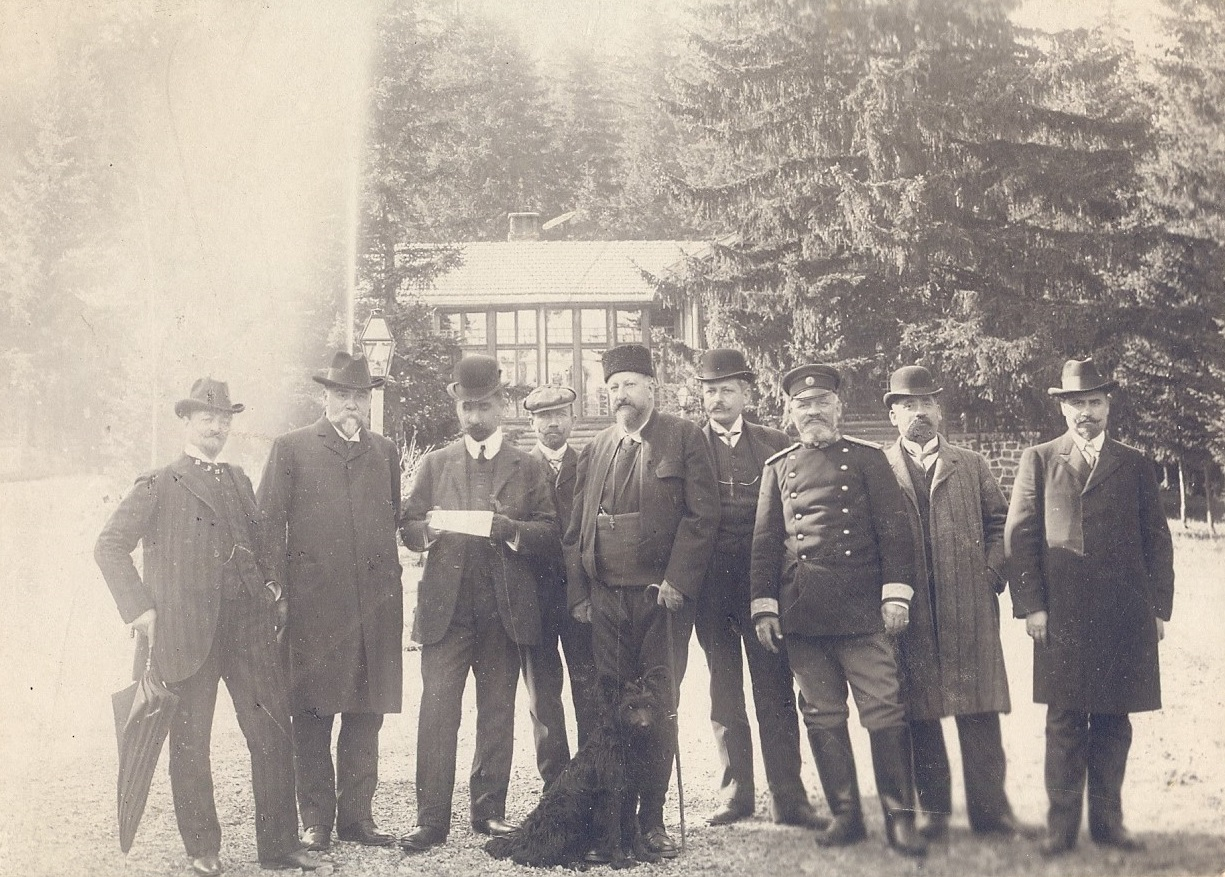 Alexandar Malinov's Cabinet and Ferdinand I of Bulgaria, Borovets, Bulgaria, 1908.